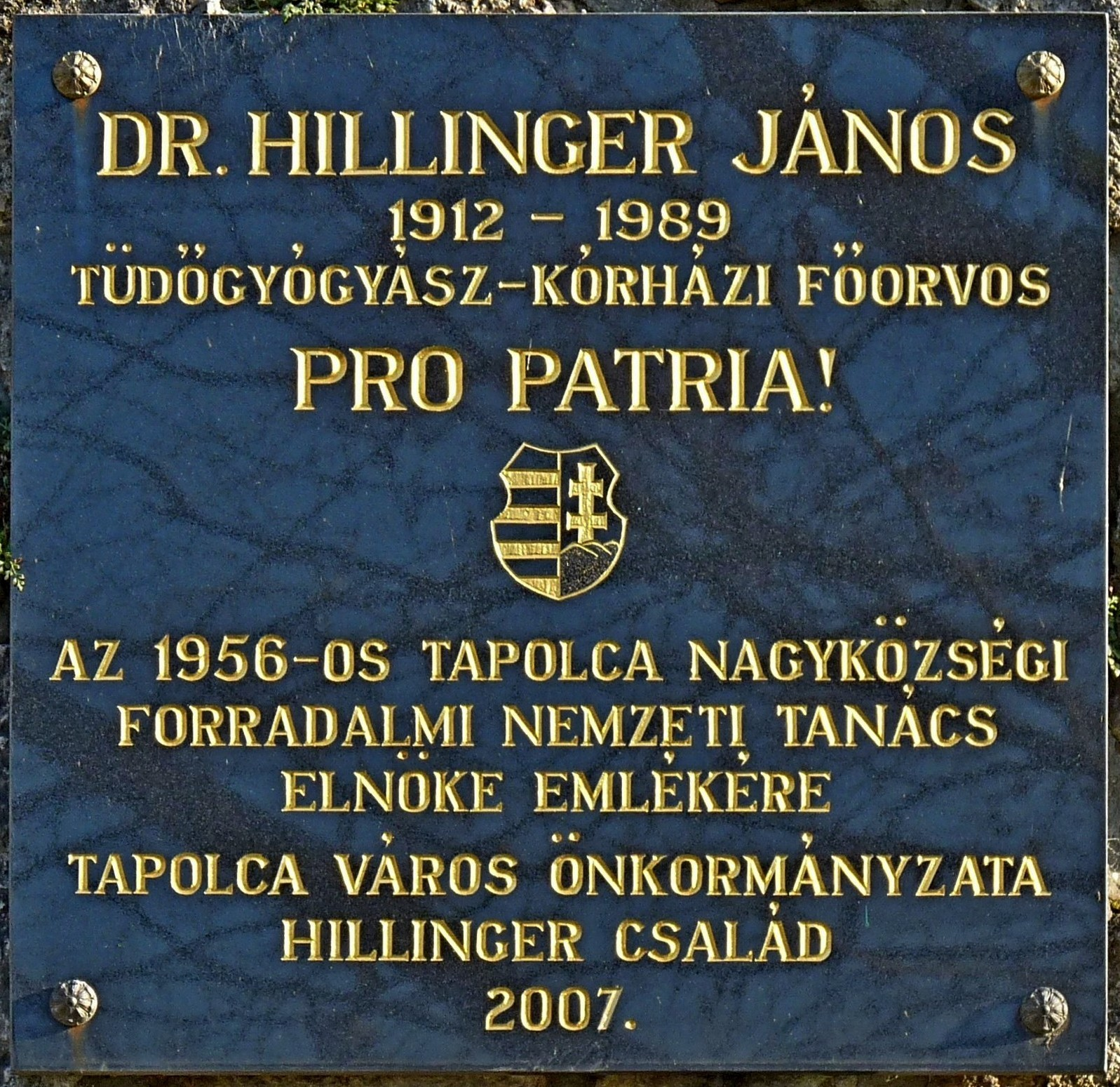 Commemorative plaque to Mr. Dr. med. János Hillinger (1912-1989) Hungarian pulmonary specialist, president of the National Revolutionary Council in Tapolca in 1956. It is affixed on the Pantheon Wall of the city. (Tapolca, Batsányi János Square)